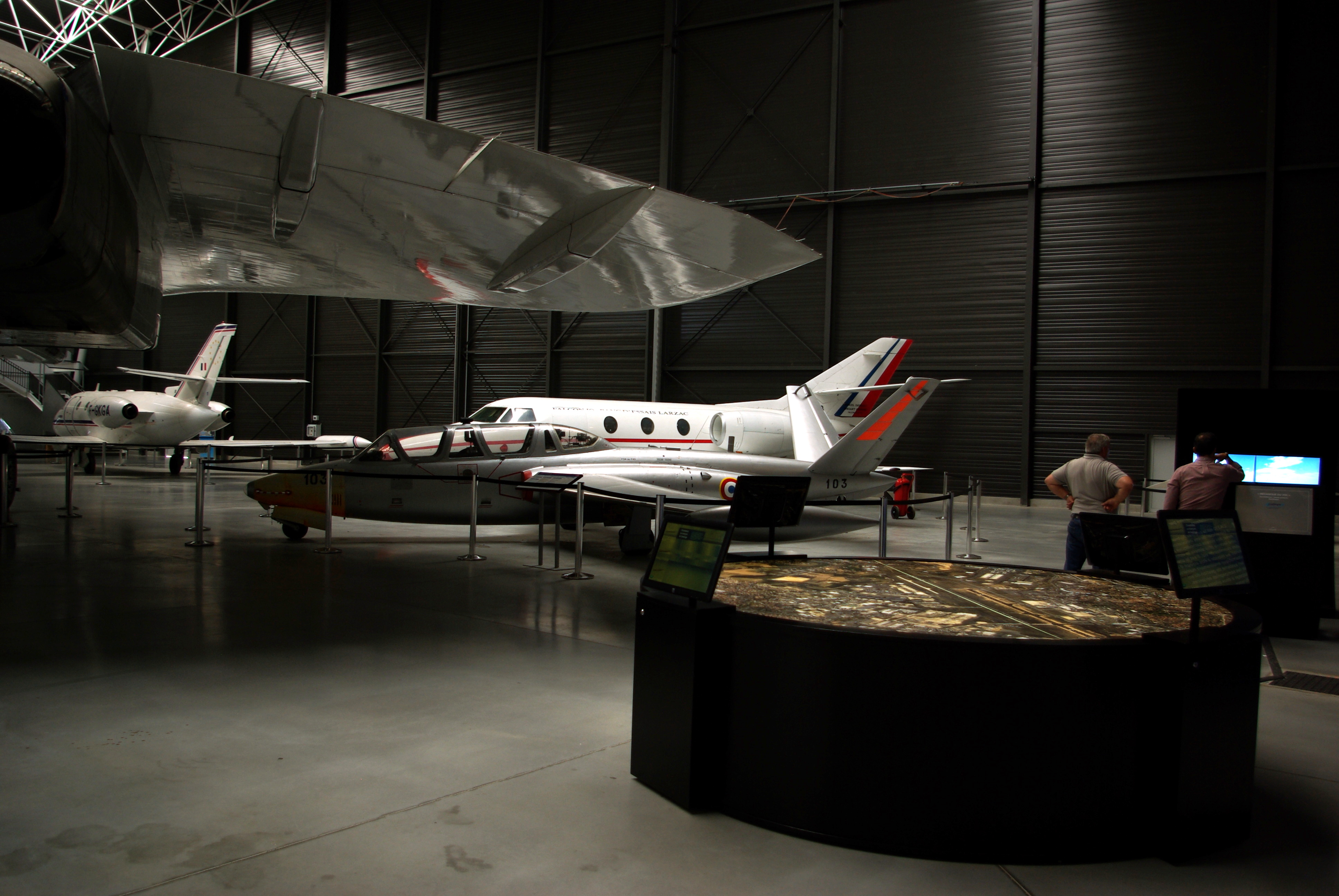 Main hall of Aeroscopia with Aerospatiale Corvette F-GKGA, Falcon 10 F-ZACB, Fouga Magister 103, a flight simulator and a photographs of Toulouse-Blagnac airport area surrounded with 4 screen allowing to assemble virtual aircraft.